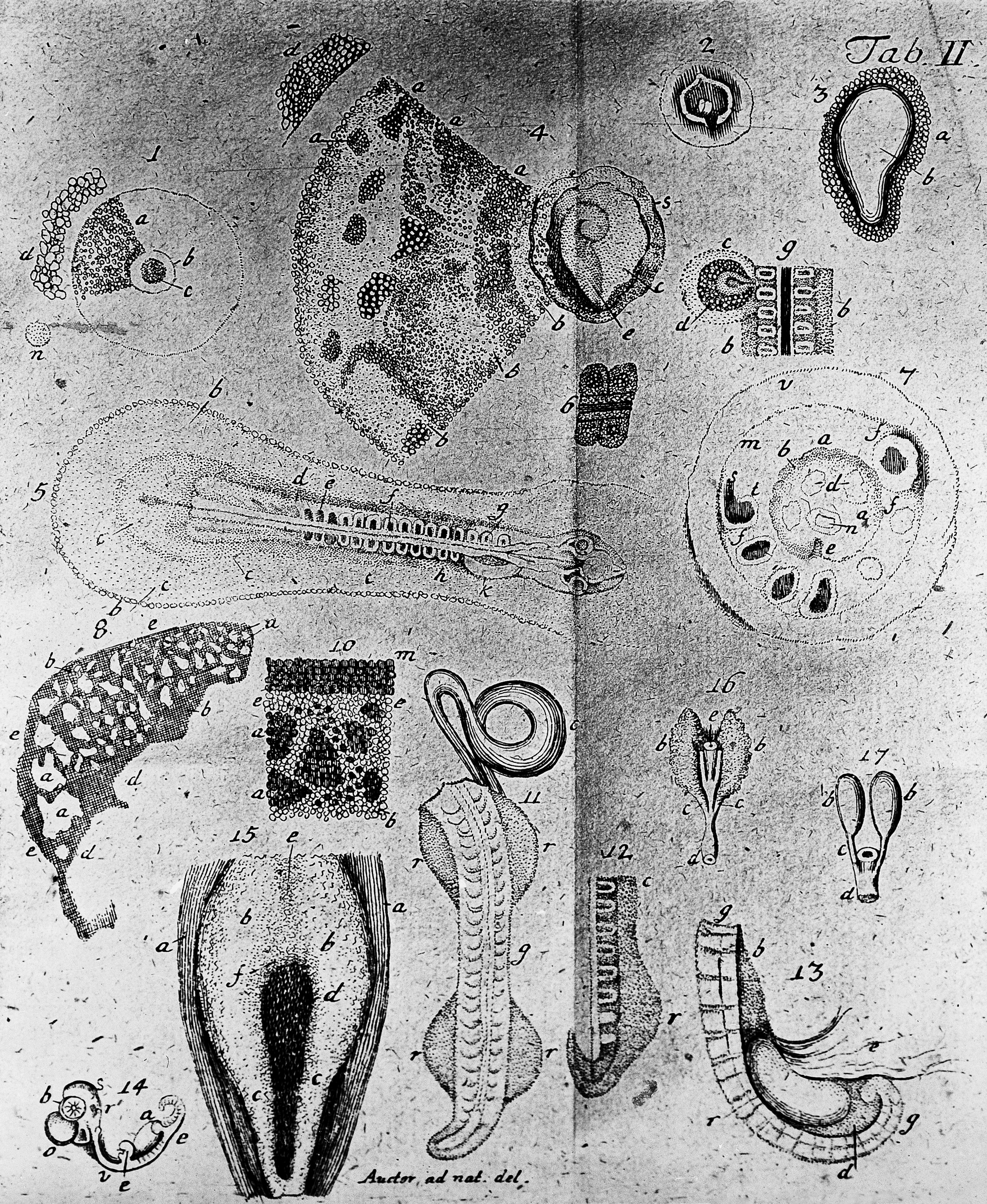 Embryology: Theoria Generationis. Wellcome Images Keywords: Embryology